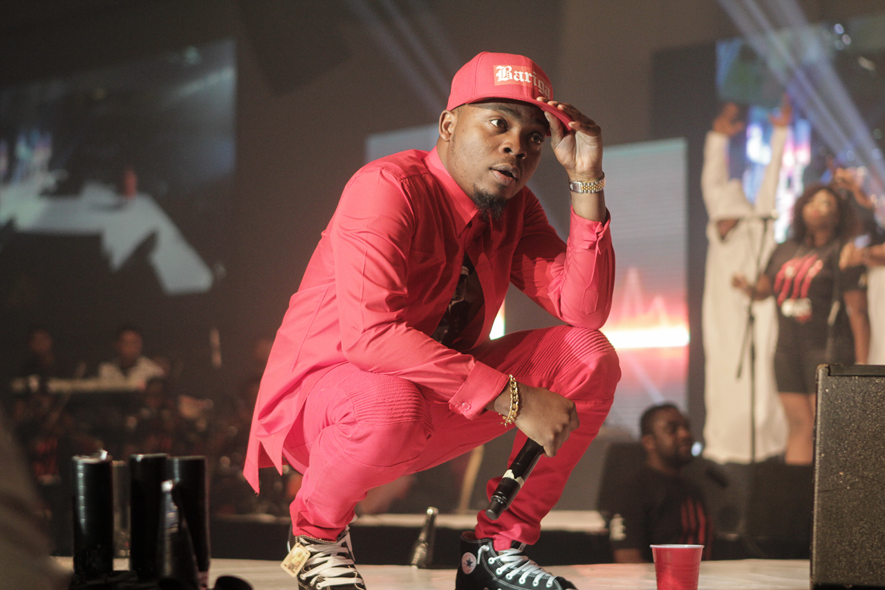 Olamide performing at Olamide Live In Concert (OLIC, 2014) Photo by Emily Nkanga